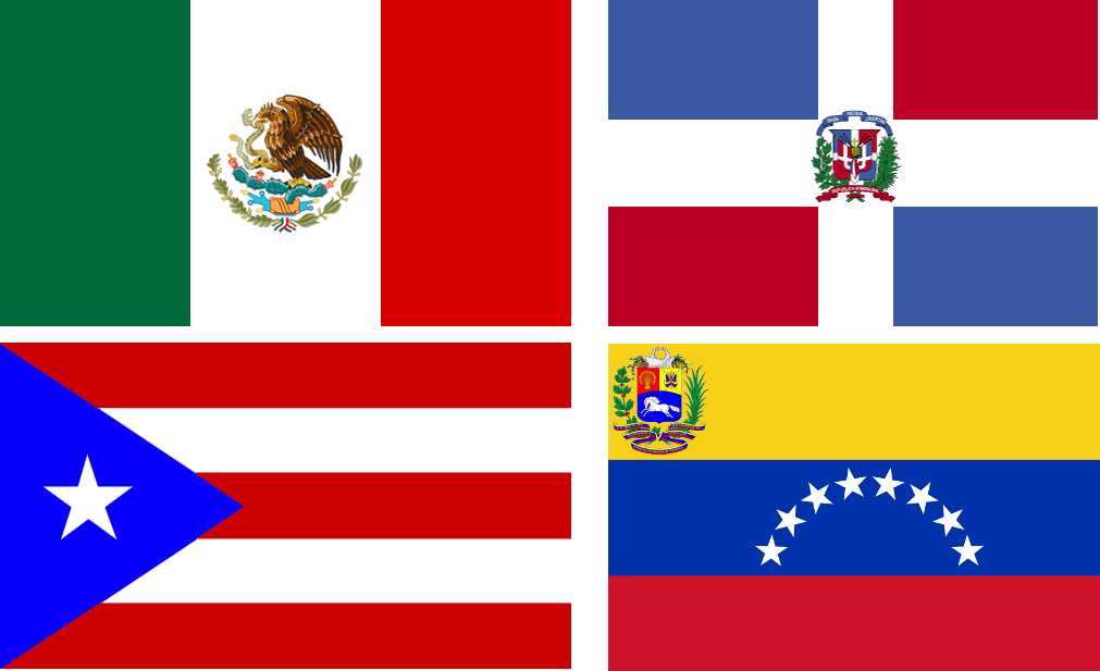 Flag of Mexico, Dominican Republic, Puerto Rico and Venzuela (Caribbean World Series contenders)